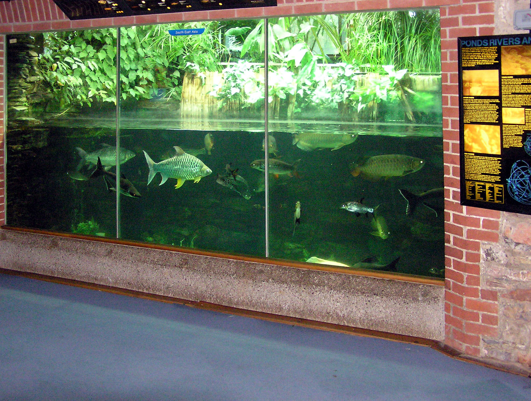 The South East Asia tank in the aquarium at Bristol Zoo, Bristol, England.